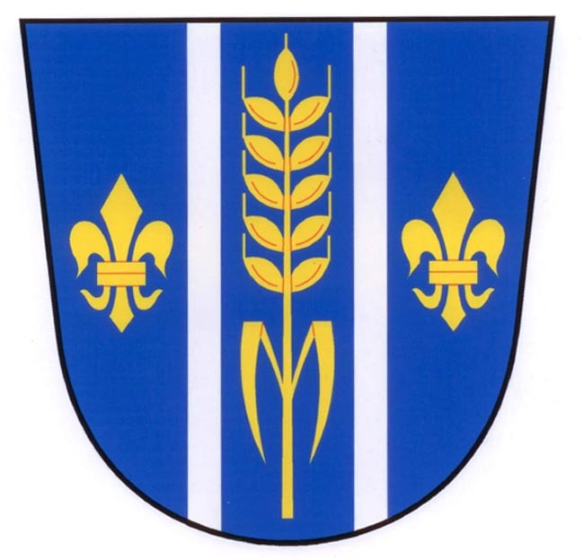 Coat of Arms of Polom, Přerov District, Czech republic.